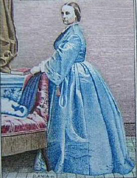 Antoinette de Merode, princess of Monaco